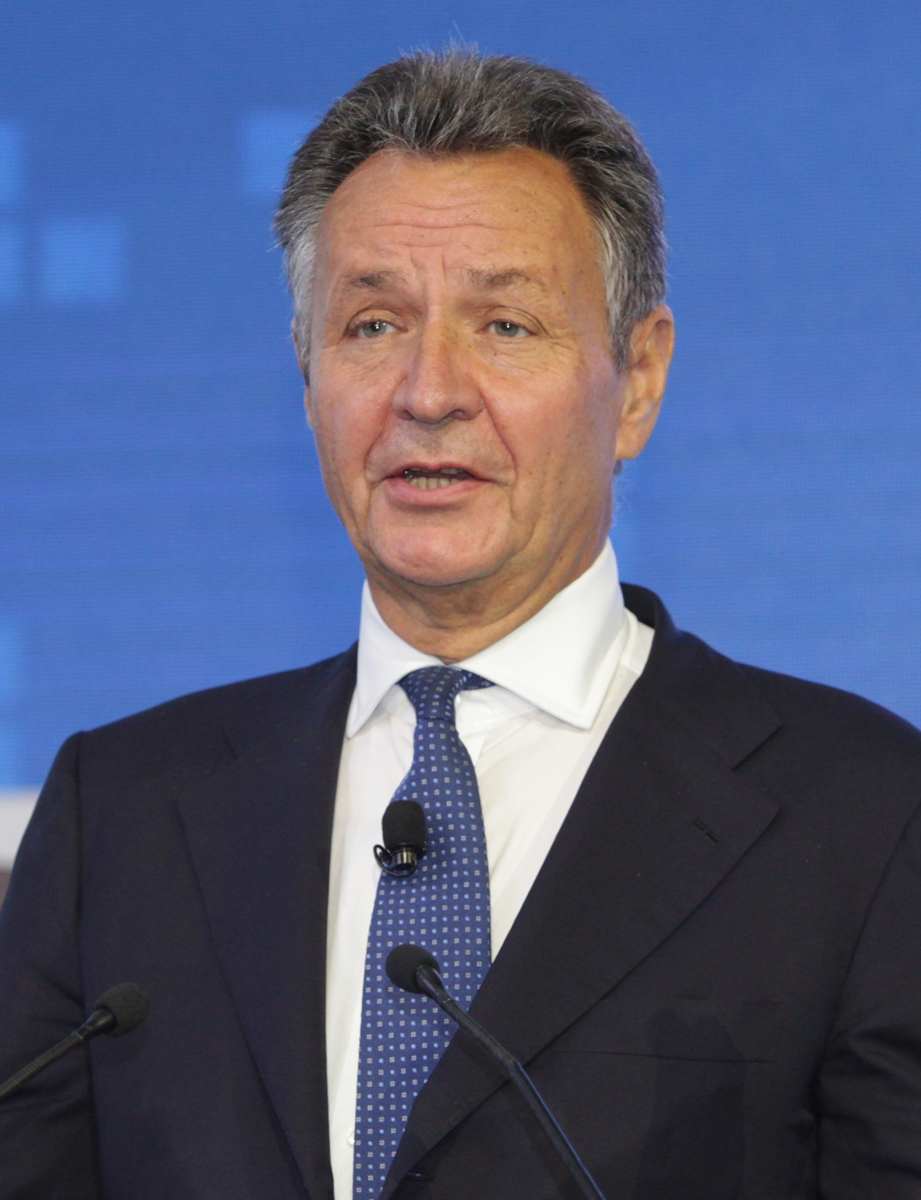 Michael Frenzel, Chairman, WTTC World Travel & Tourism Council Flickr images